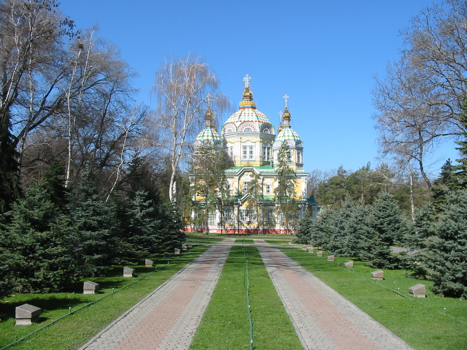 Ascension Cathedral (Russian Orthodox) in Almaty, Kazakhstan